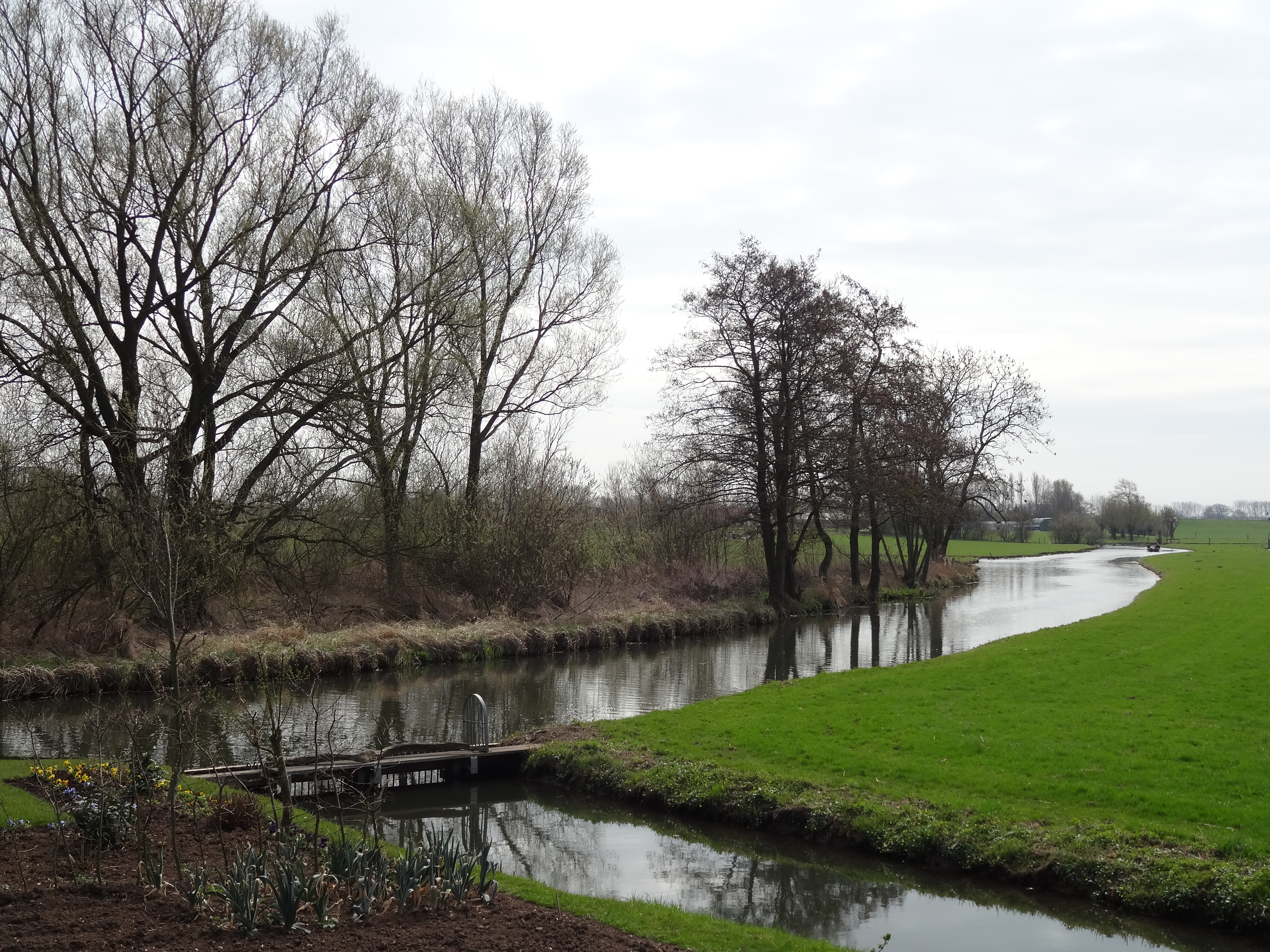 The river Kromme IJssel, near Hoogland (IJsselstein).